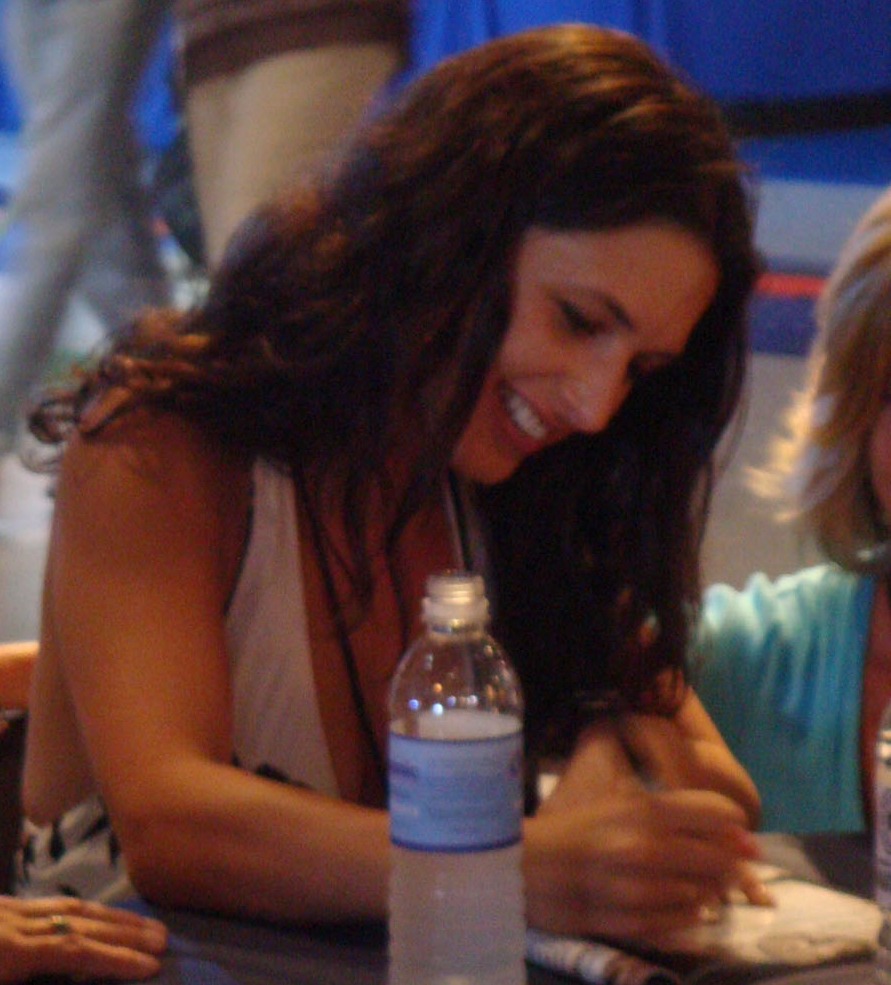 Andrea Gabriela on Lost Official Show Auction occurred in Barker Hangar, Santa Monica Airport on August 21-22, 2010.